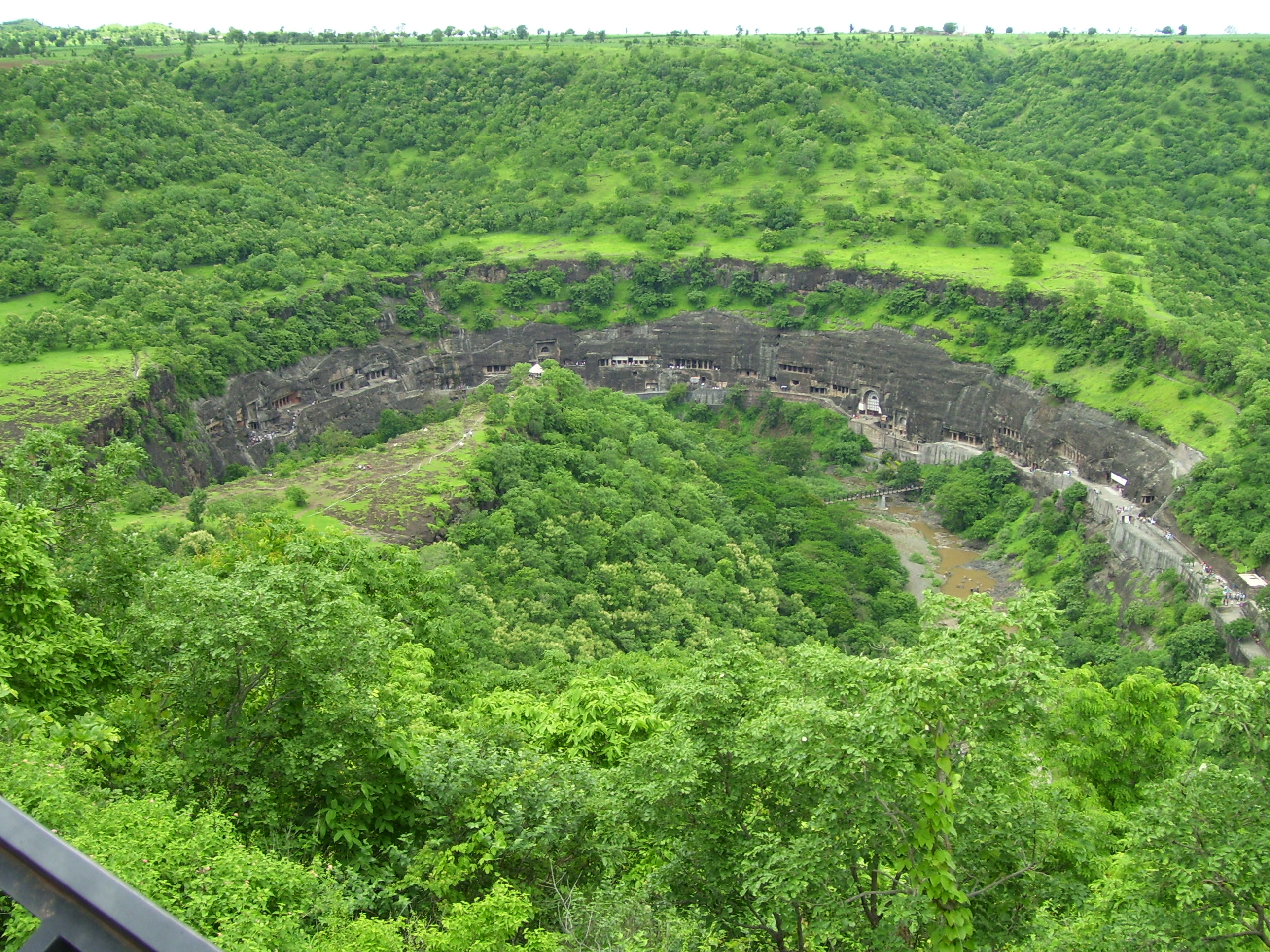 The horse shoe shape of Ajanta Caves in Maharashtra, India, as seen from the Ajanta caves view point.